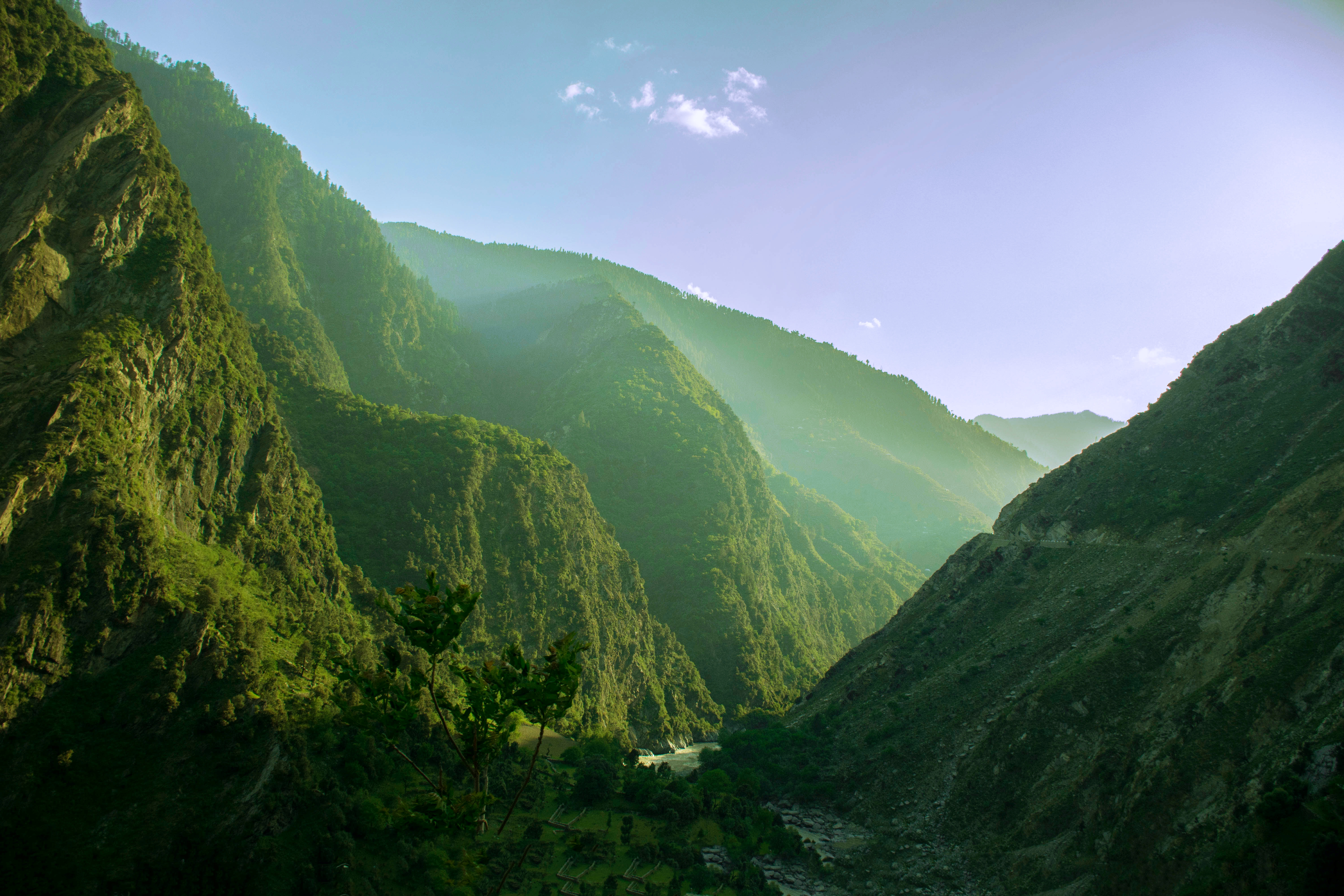 Neelum Valley, Azad Jammu & Kashmir, Pakistan